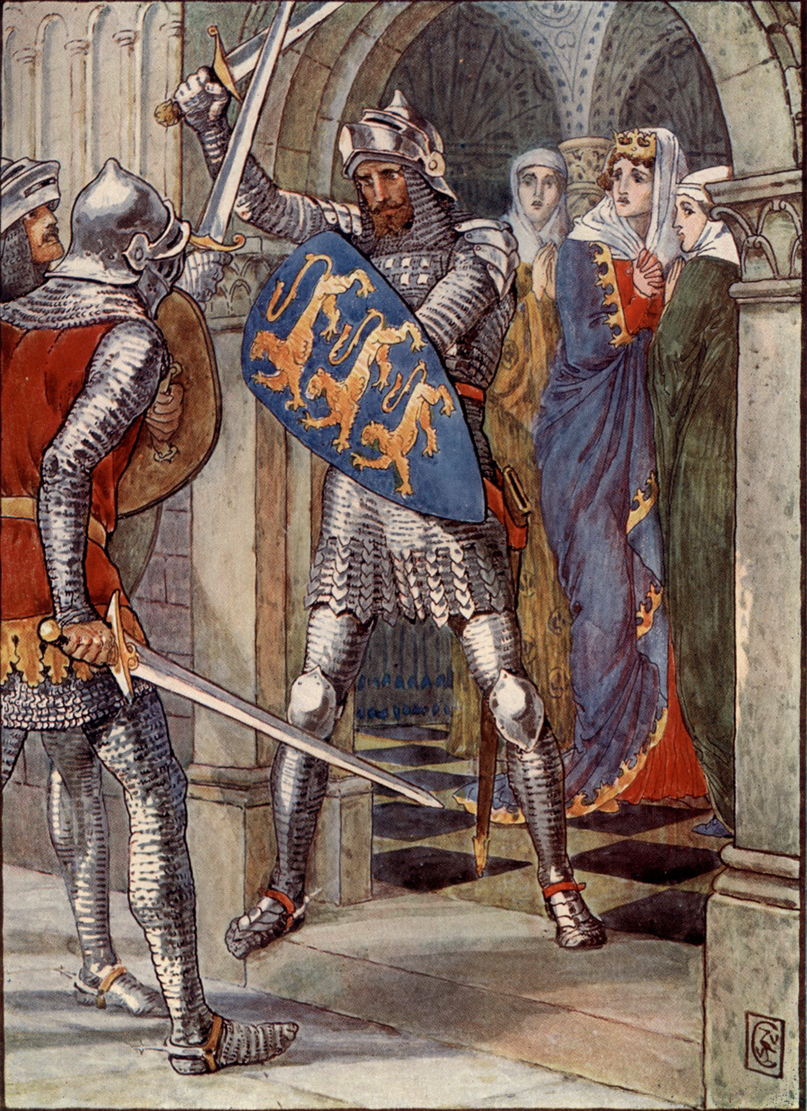 From King Arthur's Knights: The Tales Retold for Boys and Girls by Henry Gilbert.